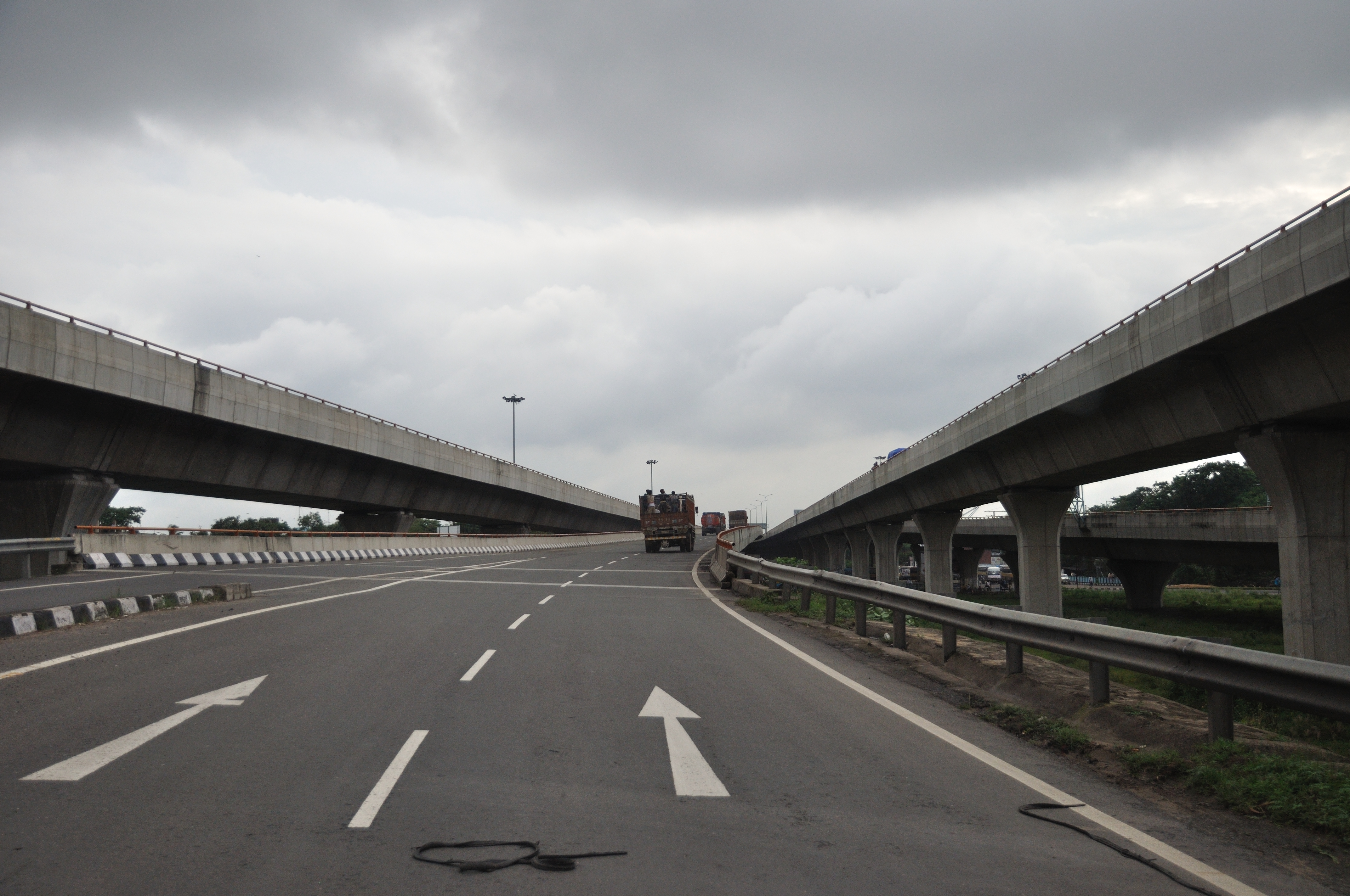 Belghoria Expressway is arterial road linking Dakshineswar and Jessore road near Netaji Subhash Chandra Bose International Airport or Dum Dum Airport. This media file is uploaded with India loves Wikipedia event.